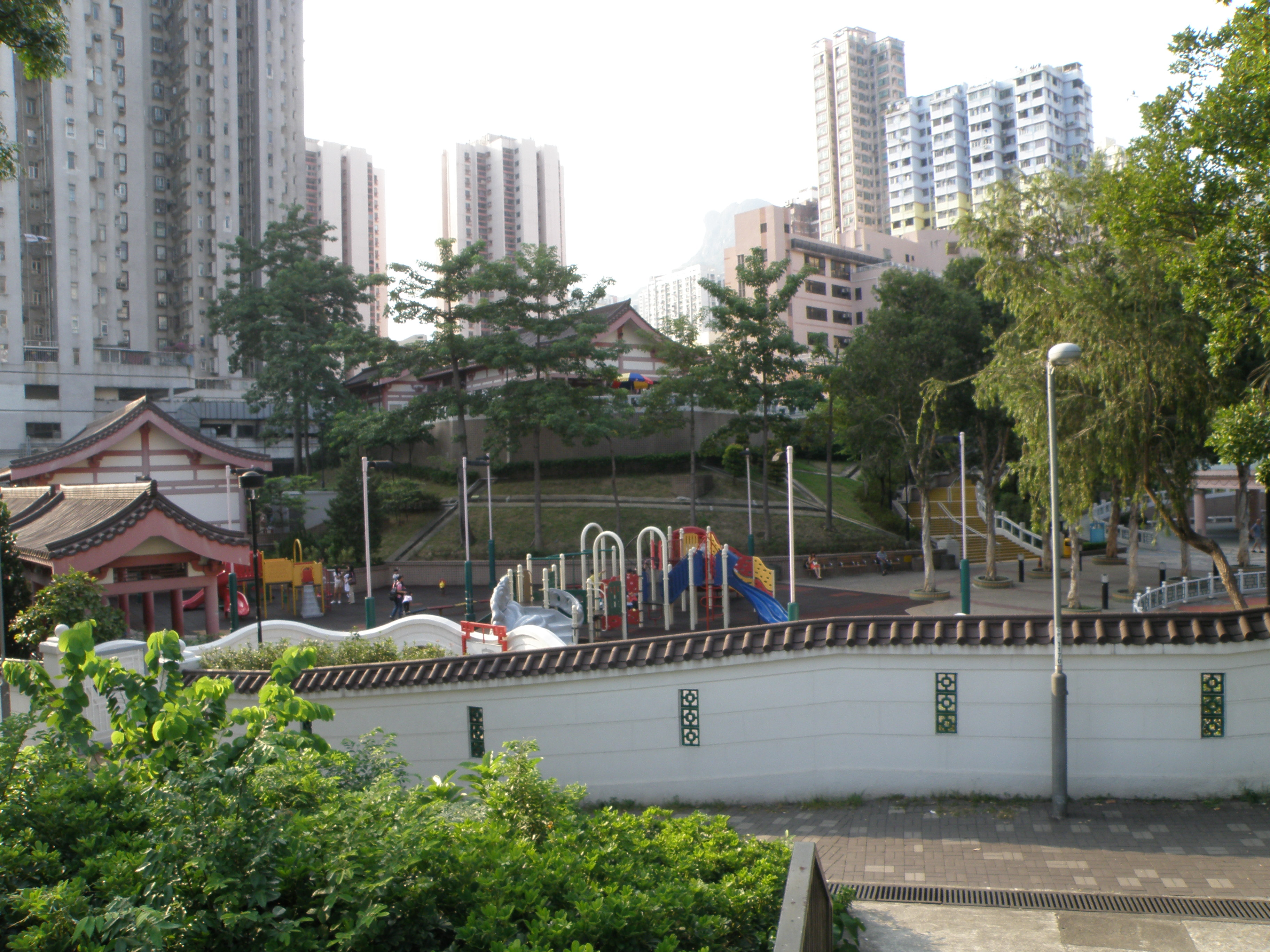 Fung Tak Park in Wong Tai Sin, Hong Kong.